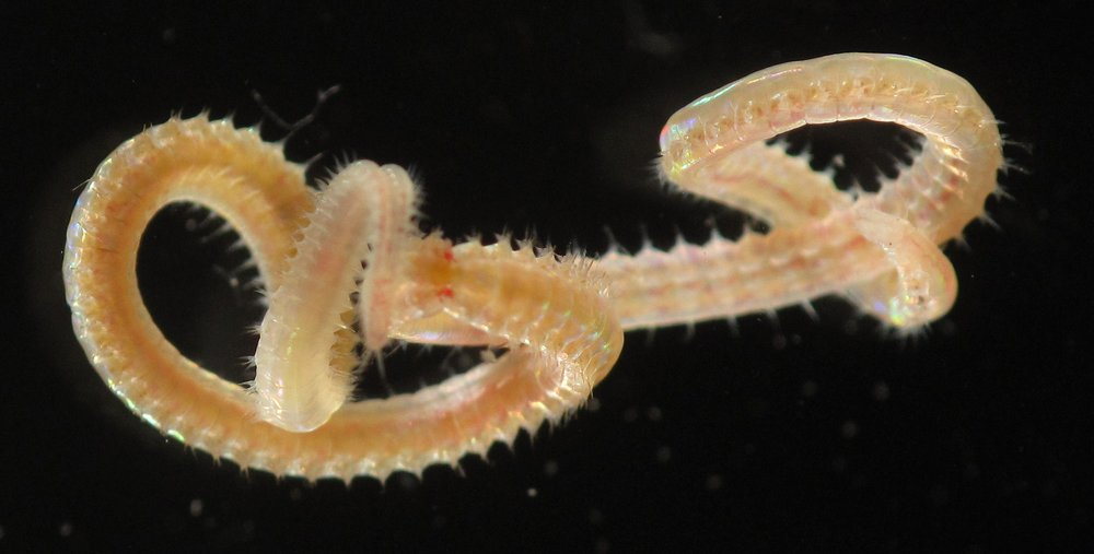 A whole polychaete worm in the genus Synelmis, belonging to the family Pilargidae.